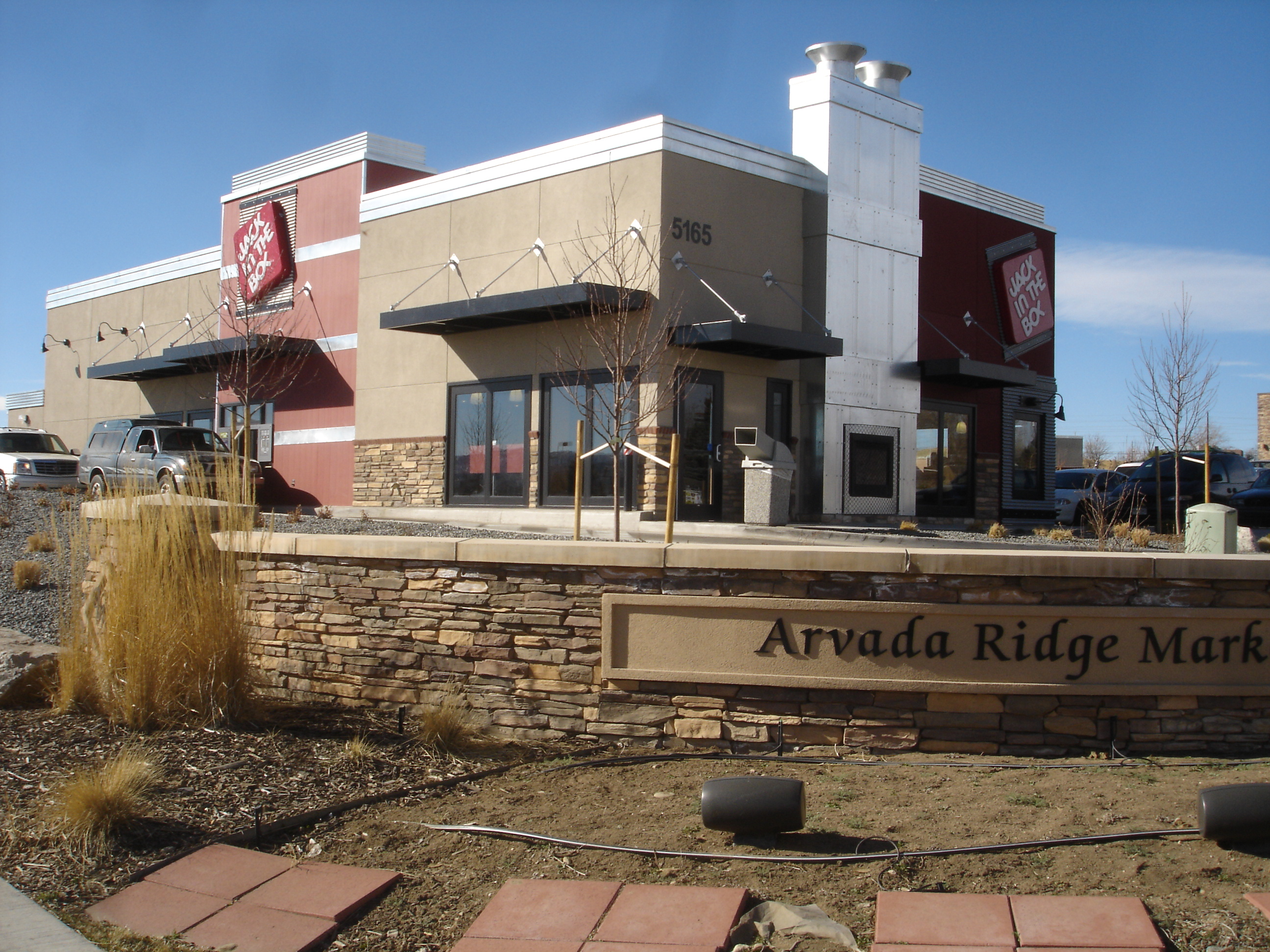 JackInTheBox, Arvada, CO Jmy007 picture